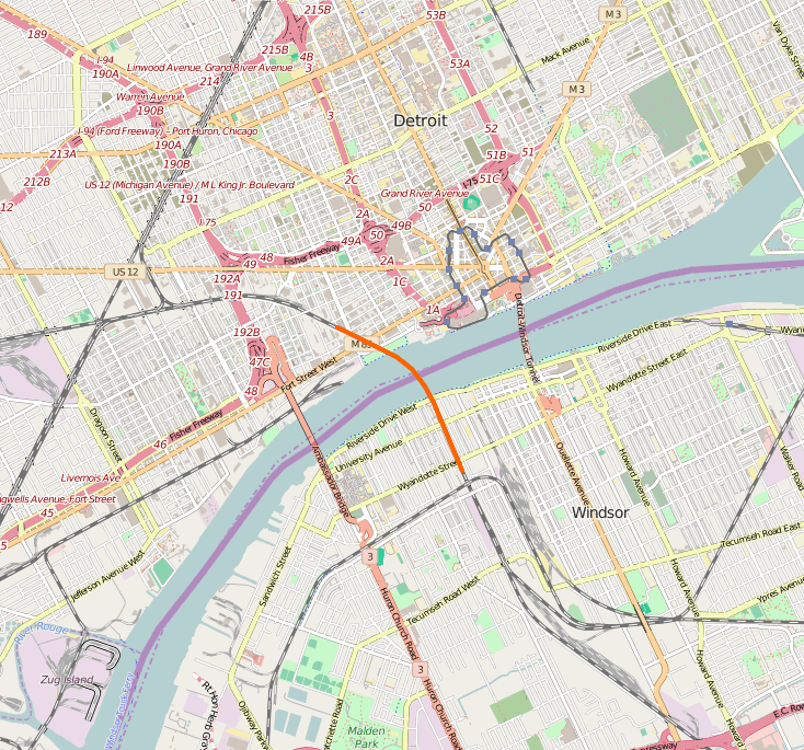 site of the Michigan Central Railway Tunnel